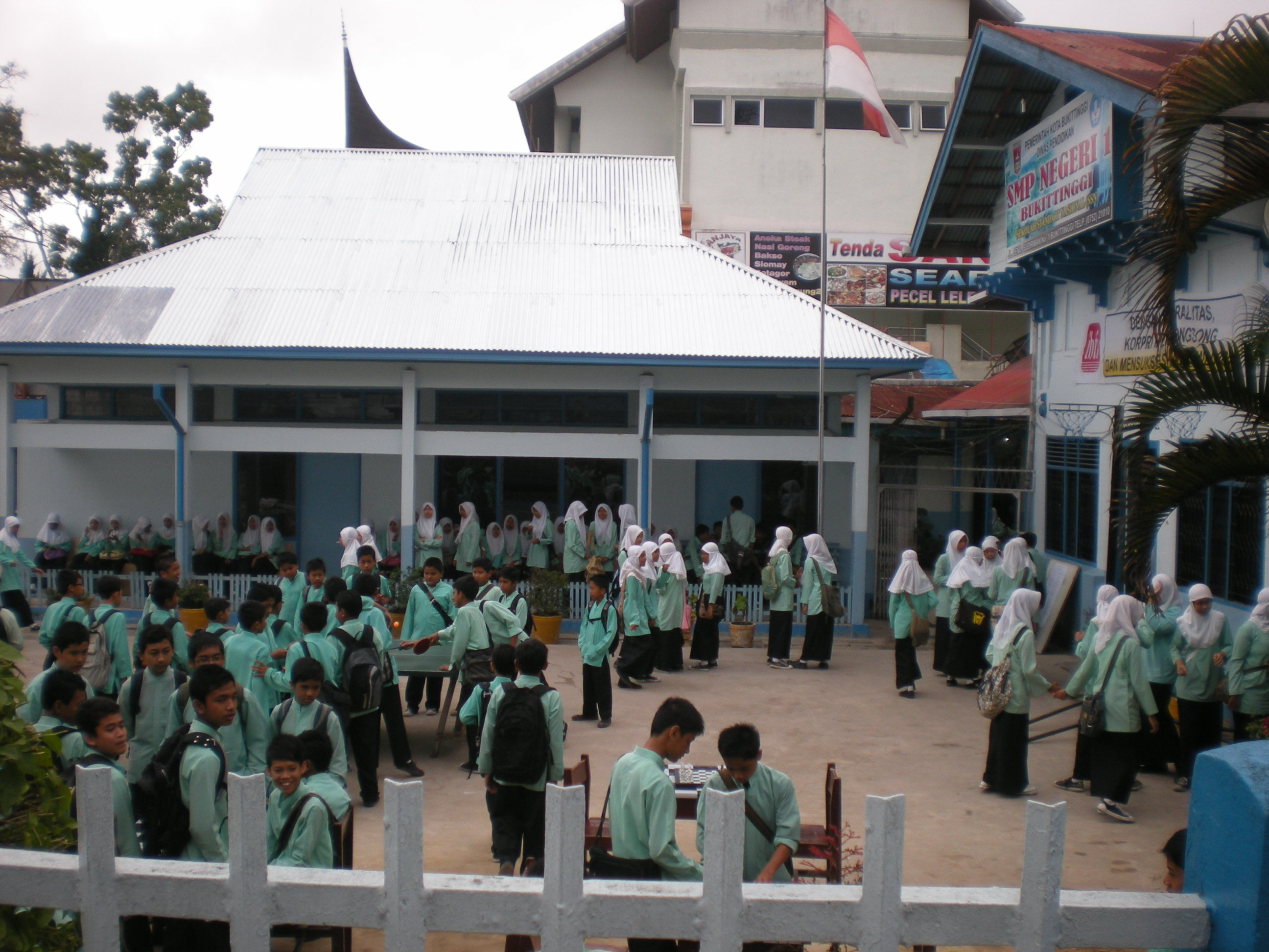 SMP Negeri 1 Bukittinggi (Junior High School), West Sumatra, Indonesia